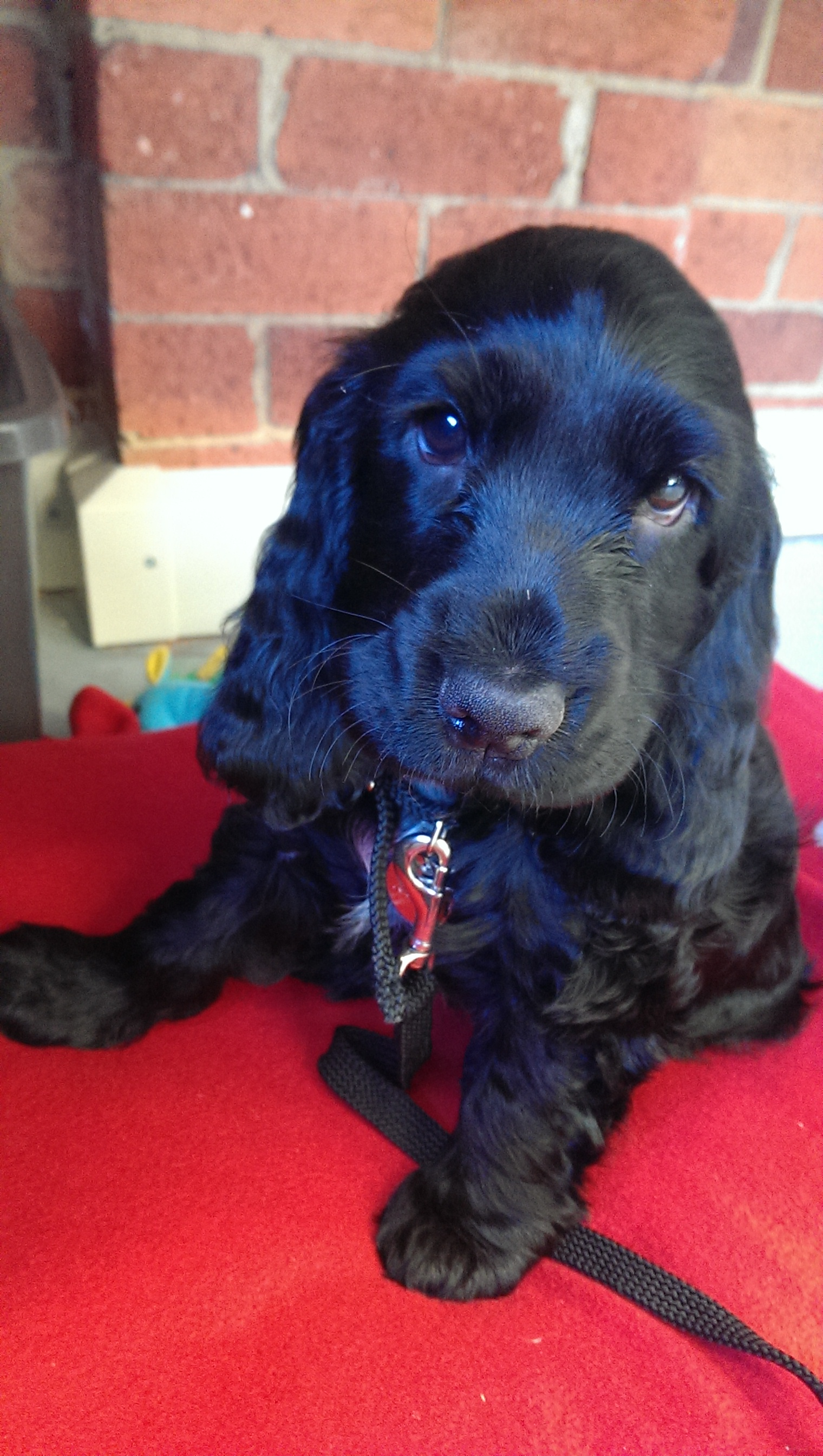 English cocker spaniel puppy